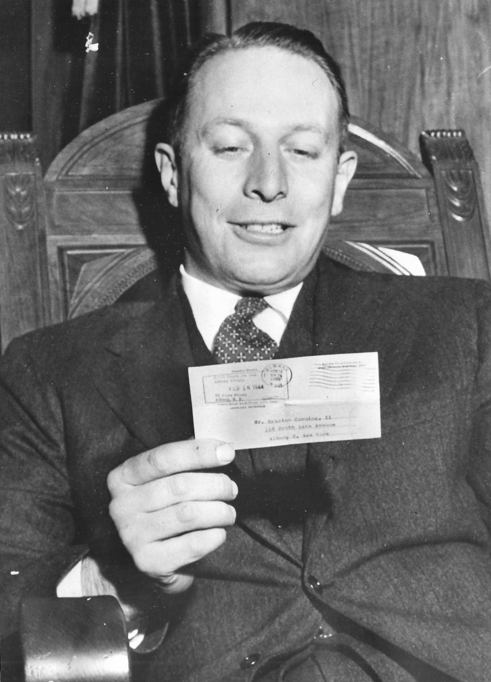 Mayor Erastus Corning 2nd of Albany, New York was drafted for World War II military service in February, 1944.